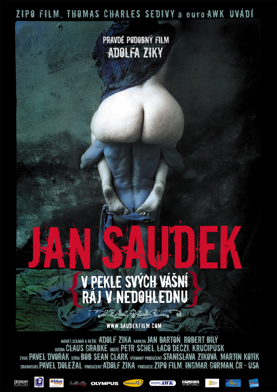 Photograph by Adolf Zika, poster for film Jan Saudek